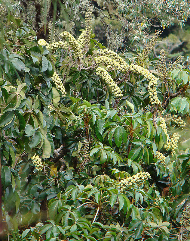 Found in Costa Rica and Panama. Photo from Volcan Baru in the latter. In context at